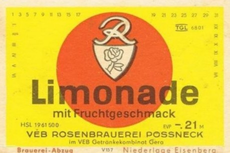 VEB Rosenbrauerei